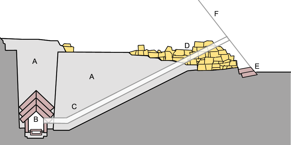 Substructure of the pyramid of Djedfra